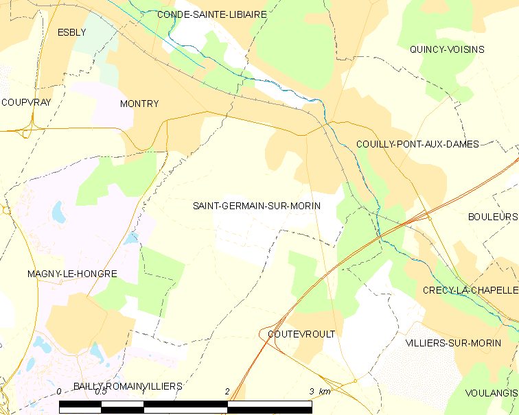 Map of French municipality Saint-Germain-sur-Morin